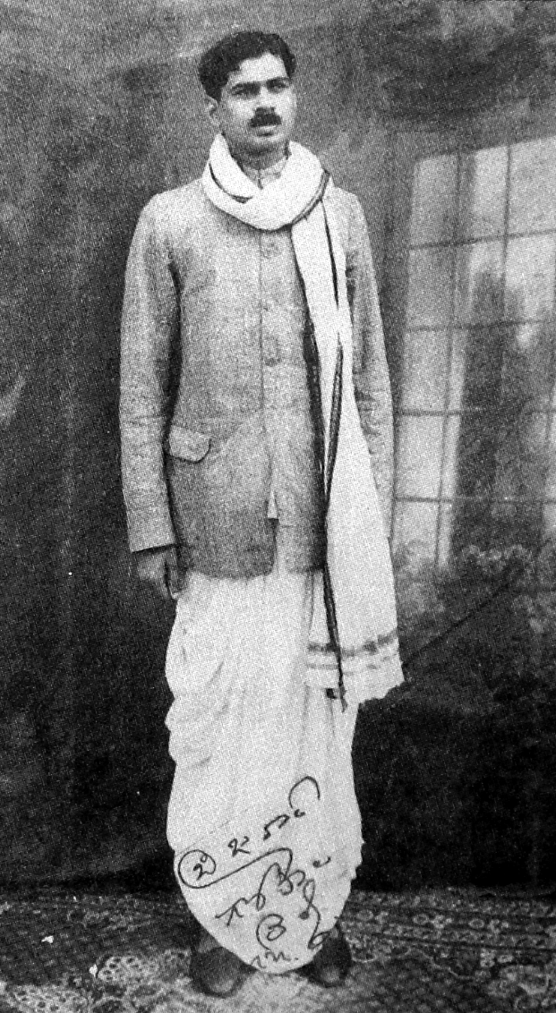 Bezawada Gopala Reddy.